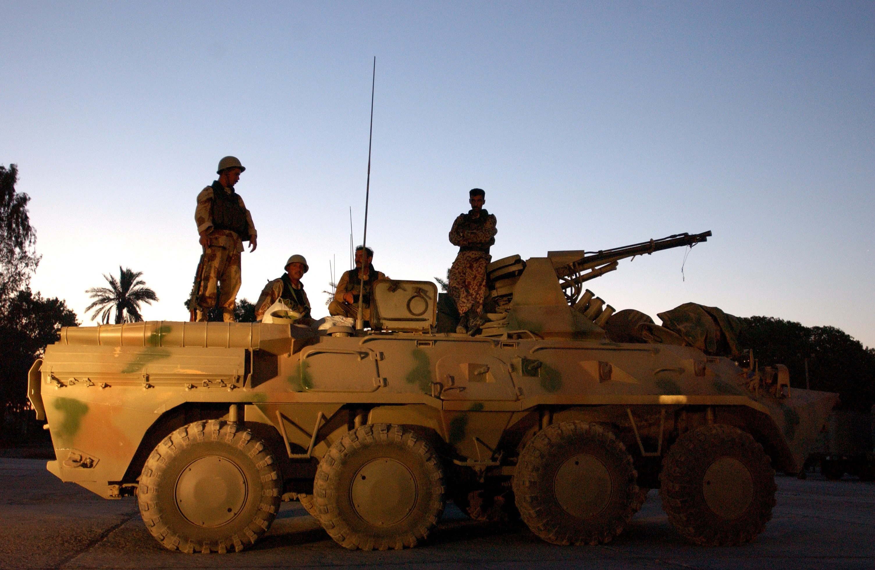 In the early morning, Iraqi National Guard (ING) troops move a BTR-94 (misidentified as a BTR-80A in source) (8X8) Armored Personnel Carrier (APC) into position in Baghdad, Iraq (IRQ), to provide security for the Iraqi Democratic National Conference during Operation IRAQI FREEDOM.